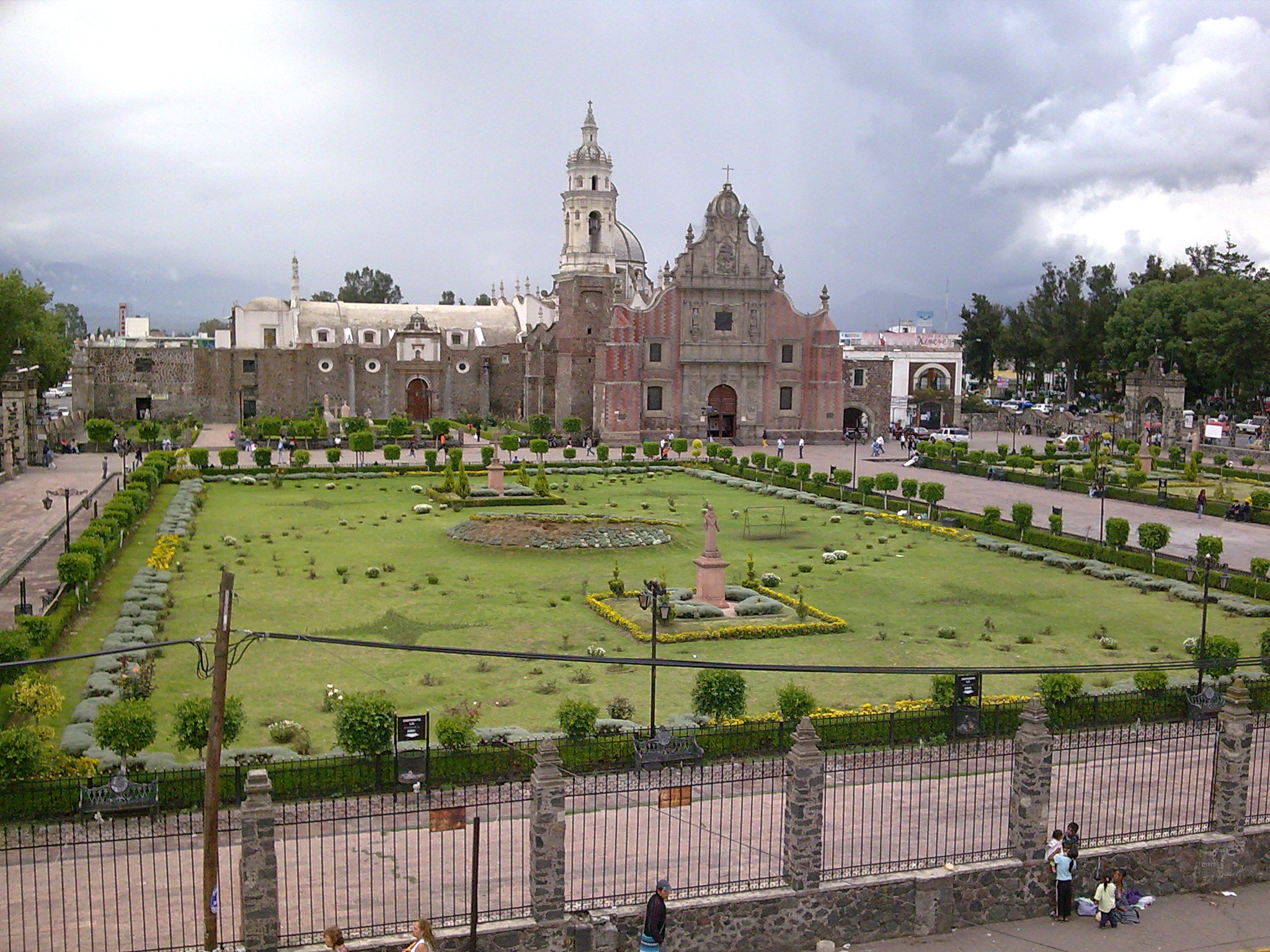 Image of the main church of Chalco